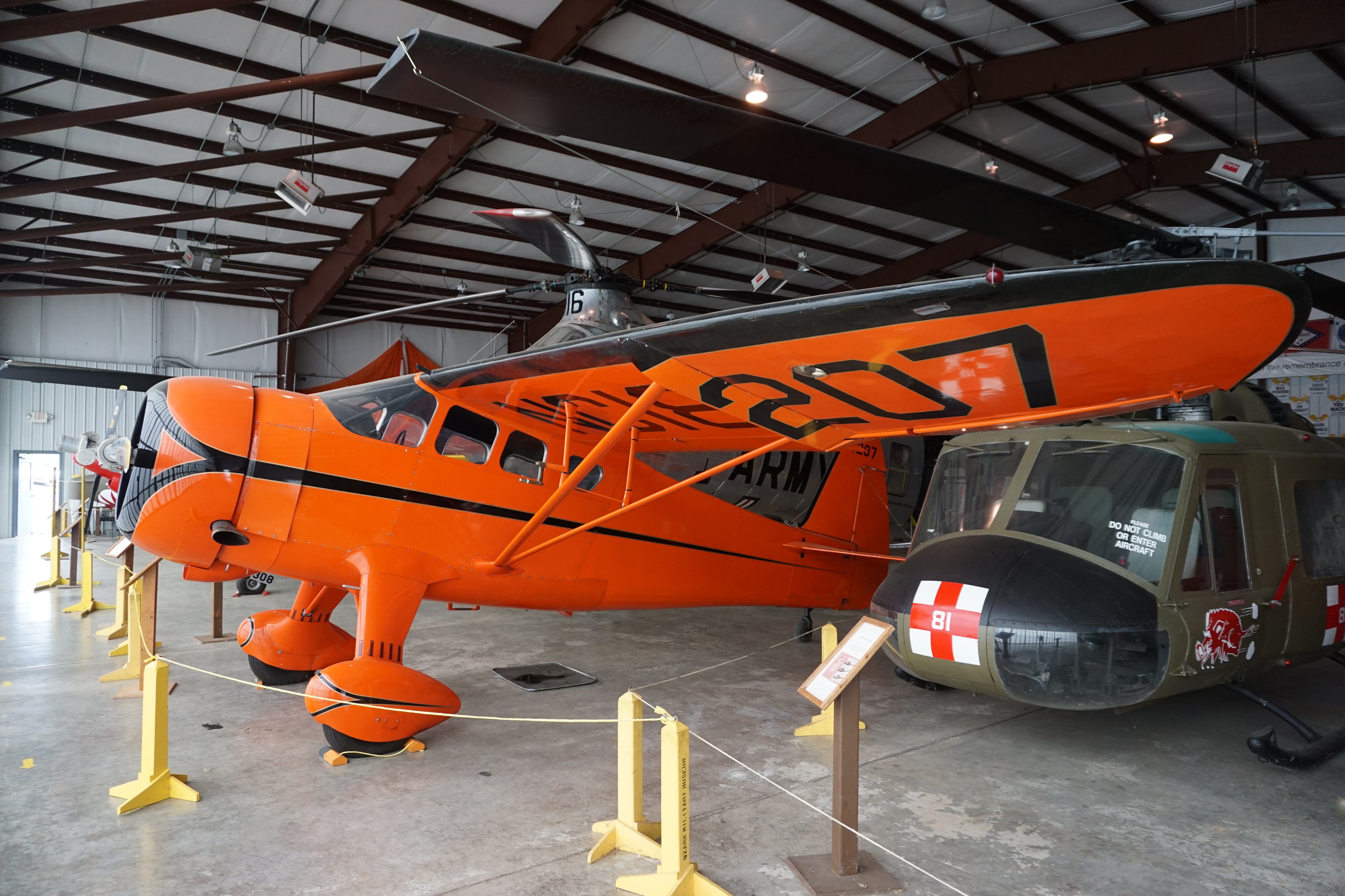 A Howard DGA-9 / DGA-11 at the Arkansas Air & Military Museum in Fayetteville, Arkansas (United States).